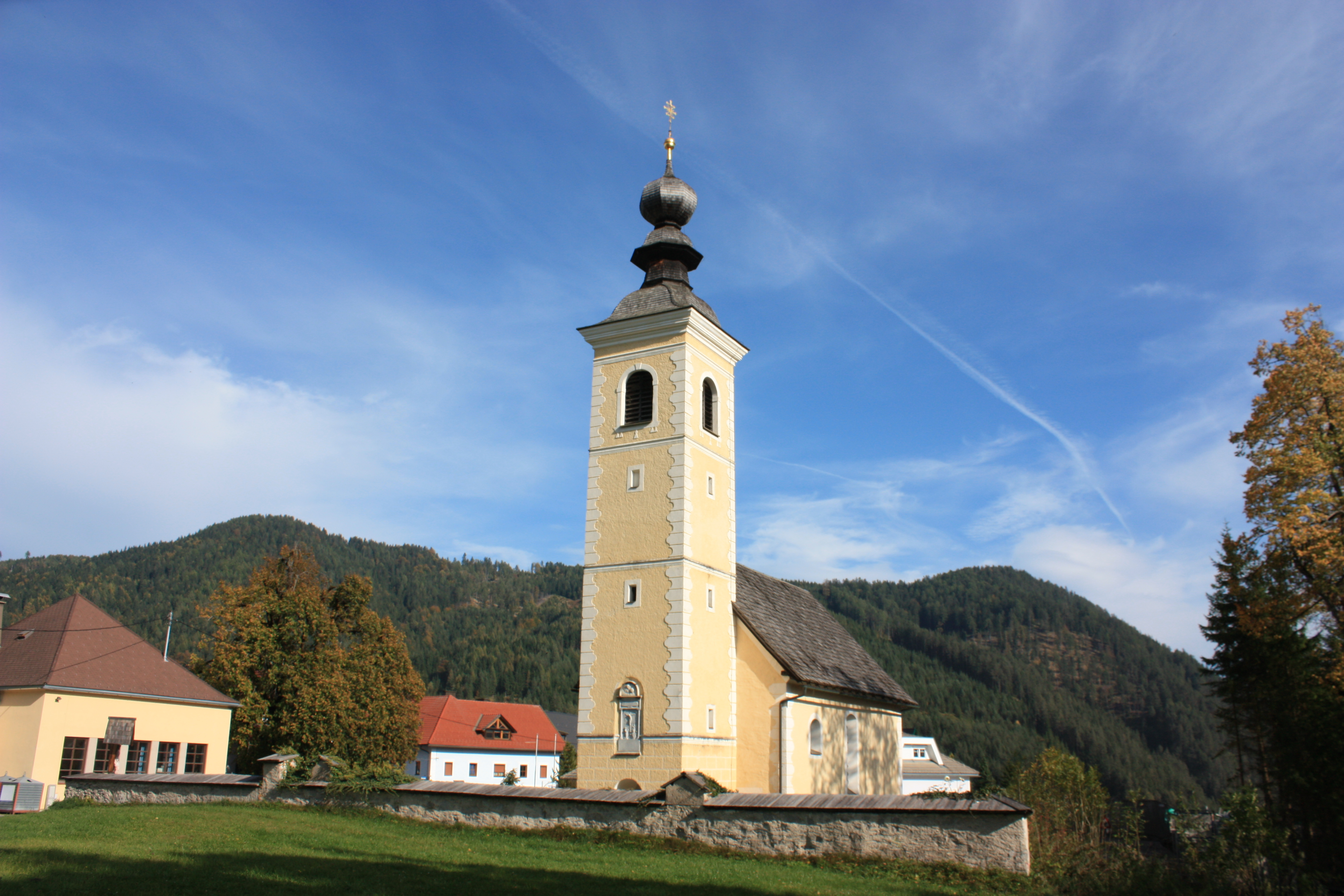 Parish church in Kreuzen, Auf der Eben, community Paternion / Austria / EU.